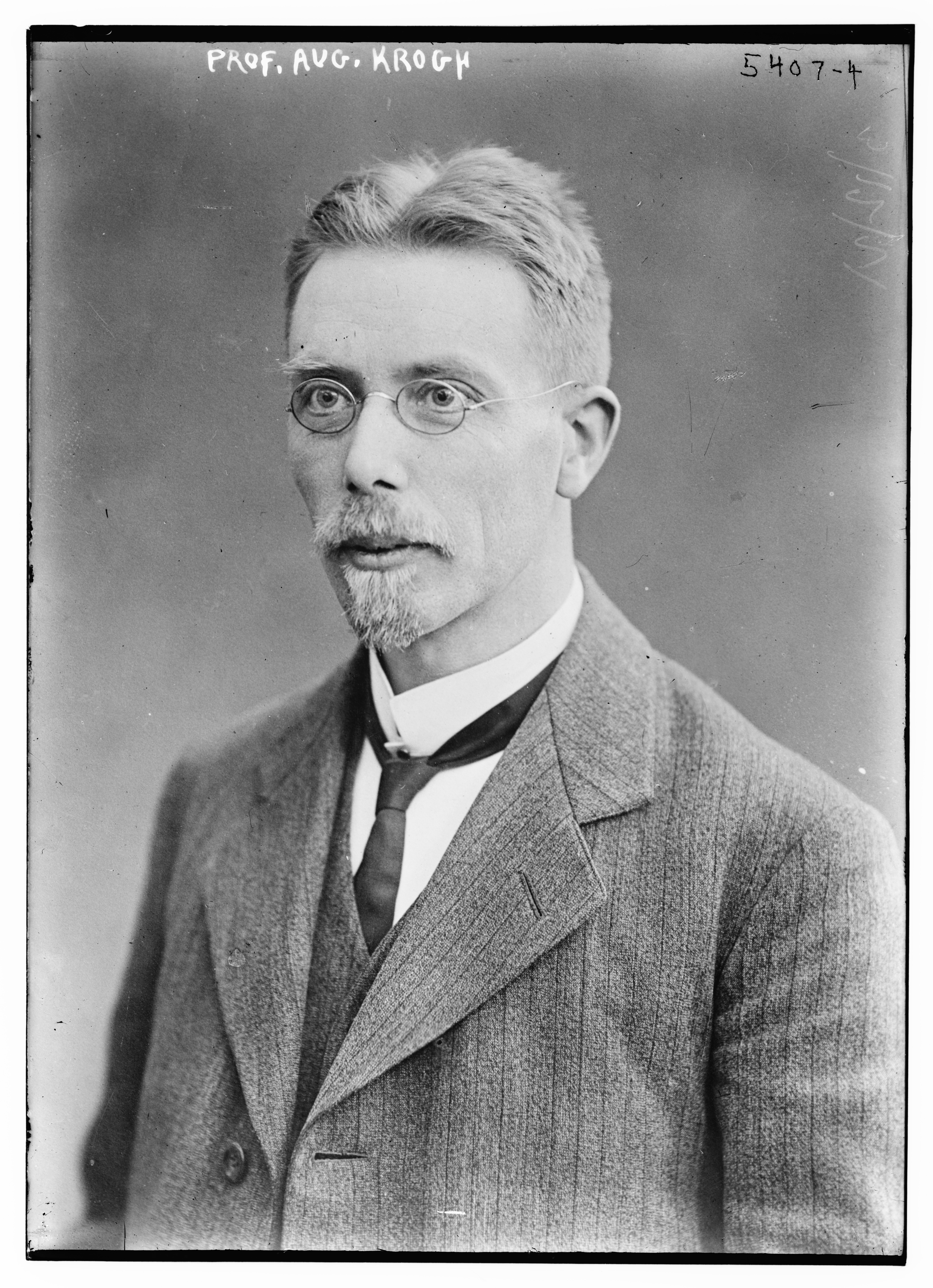 The Danish scientist August Krogh.